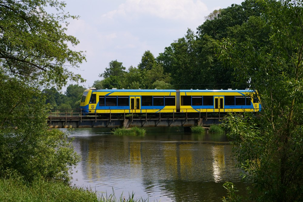 Polish diesel multiple unit (railbus) SA109-008 crosses the Mała Panew river while heading from Opole to Kluczbork.